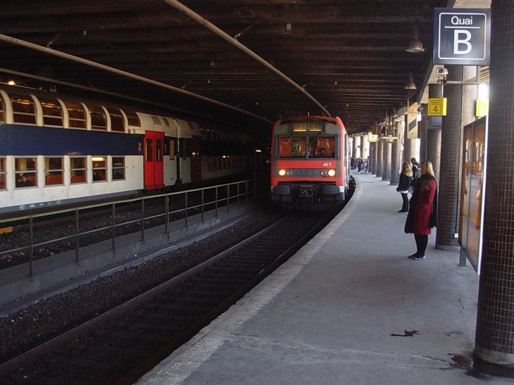 A Z8800 on an Eastbound JILL service arriving at Champs de Mars RER C station.